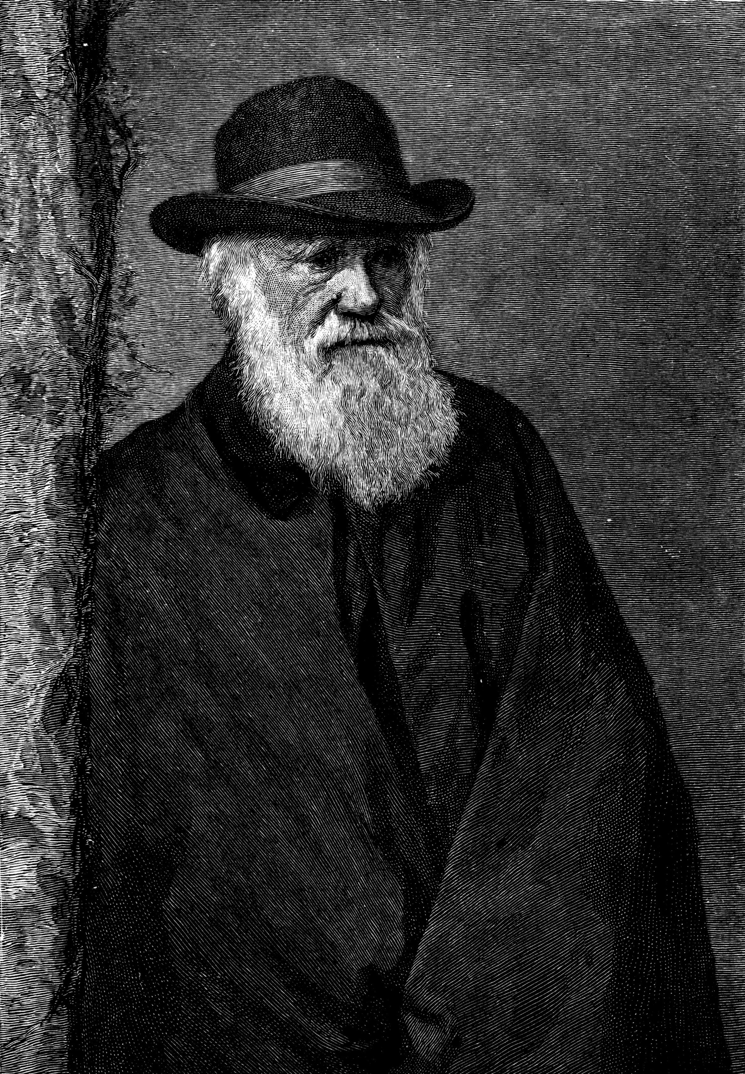 Charles Darwin in 1881. From a photograph by Messrs. Elliott and Fry.